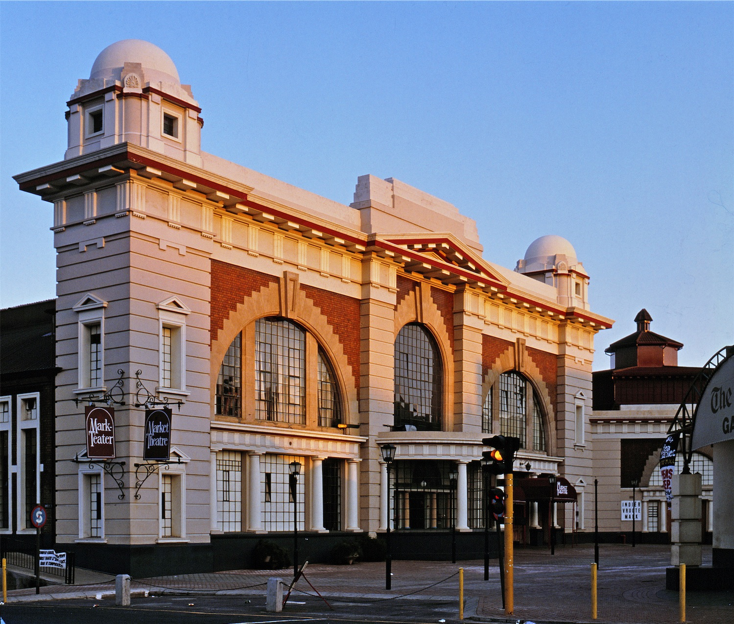 This media shows a South African Protected Site with SAHRA file reference 0000000000.